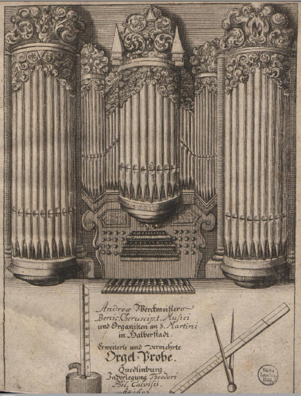 Title page of the music treatise "Orgelprobe" by Werckmeister published in 1698